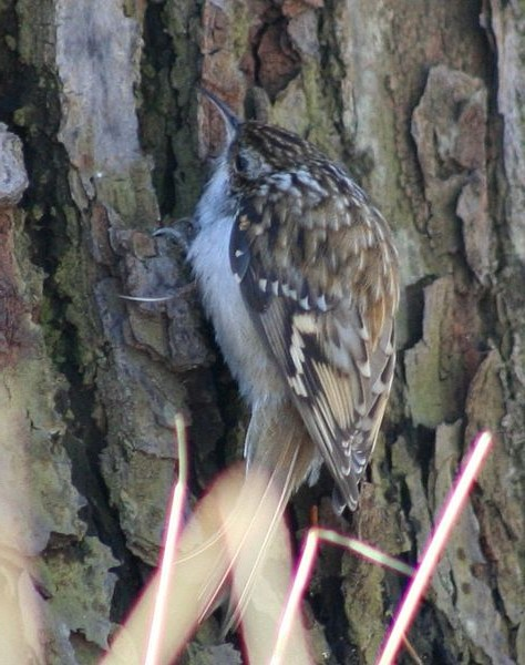 reflected and cropped from Commons Image:Certhia familiaris.jpg